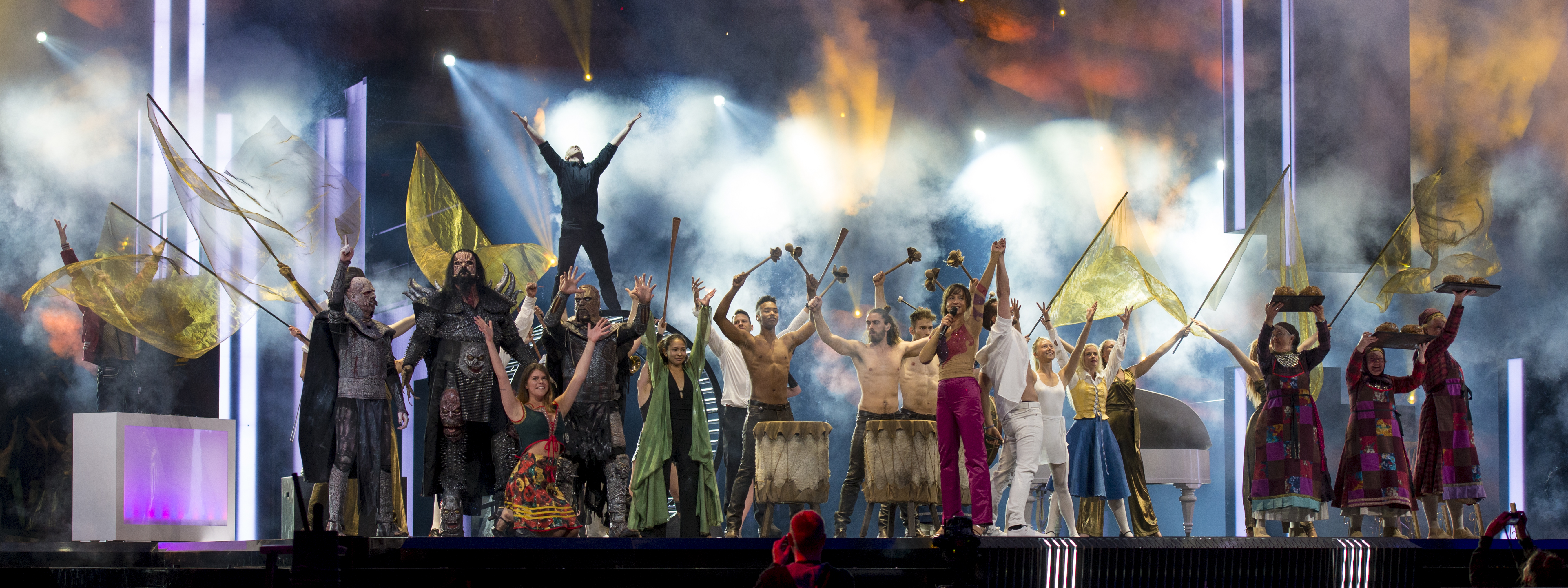 The interval act of the final, during the first dress rehearsal of the Eurovision Song Contest 2016 in Stockholm. (Help translate this text)